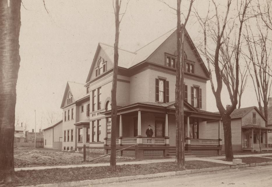 House after 1896 expansion